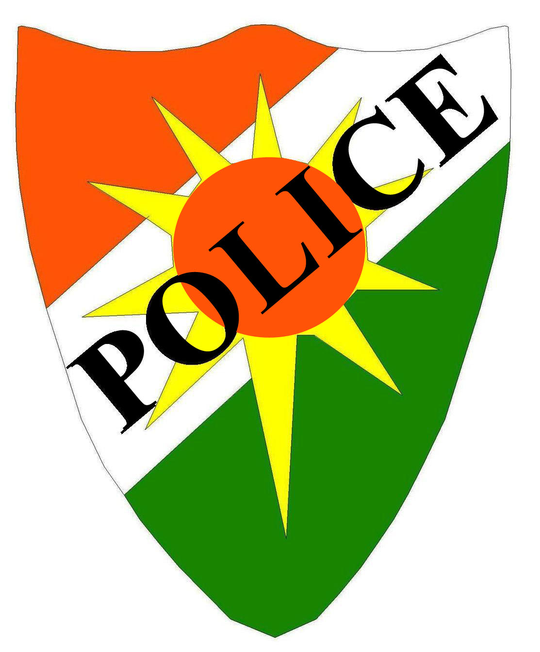 Insigna of the national police of Niger